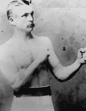 This is a black and white photo of welterweight boxer Billy Frazier in fighting pose with white trunks, leading with his left Photo taken around 1890.